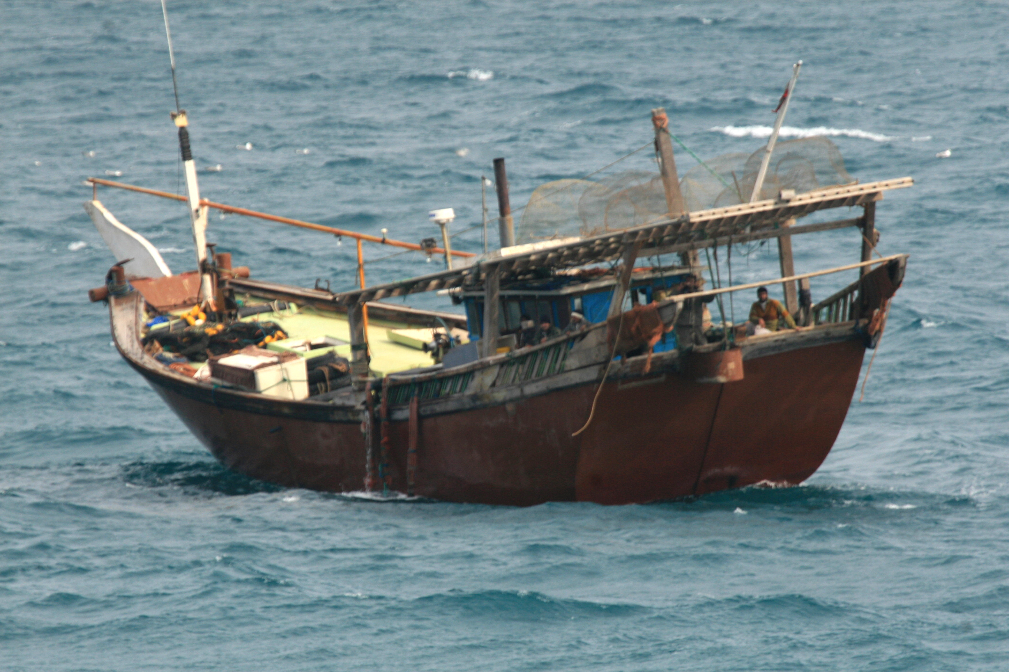 120131-N-ZZ999-002 ARABIAN GULF (Jan. 31, 2012) The Iranian fishing dhow M/V Sohaila awaits assistance from the guided-missile destroyer USS John Paul Jones (DDG 53) after sending a distress call stating the dhow's engine was inoperable. Sailors assigned to John Paul Jones and Explosive Ordnance Disposal Mobile Unit (EODMU) 11-3-1, both attached to the Abraham Lincoln Carrier Strike Group boarded the Sohaila to repair the engine and free the fouled propeller. The Abraham Lincoln Carrier Strike Group is comprised of the USS Abraham Lincoln (CVN 72), Carrier Air Wing 2, Destroyer Squadron (DESRON) 9, the guided-missile cruiser USS Cape St. George (CG 71), and the guided-missile destroyers USS Momsen (DDG 92) and USS Sterett (DDG 104), are conducting maritime security operations and theater security cooperation efforts in the U.S. 5th Fleet area of responsibility. (U.S. Navy photo/Released)